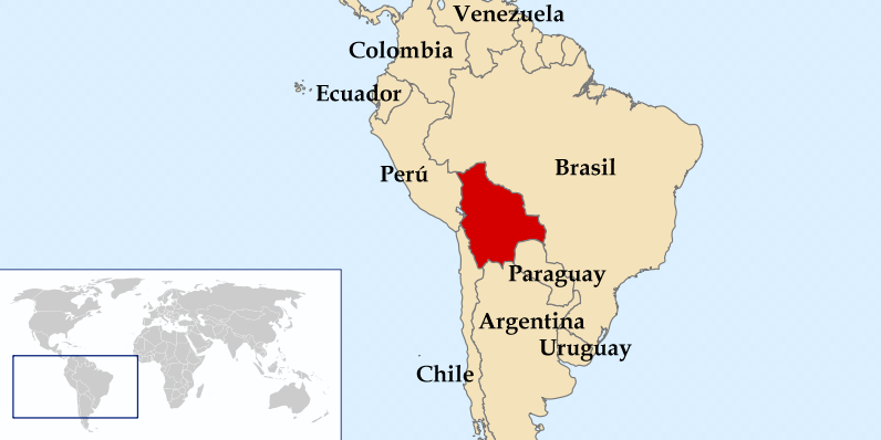 (en) World Map * (pt) Mapa Mundo * (de) Weltkarte * (sv) Världskarta This is a retouched picture, which means that it has been digitally altered from its original version. Modifications: {1 }.